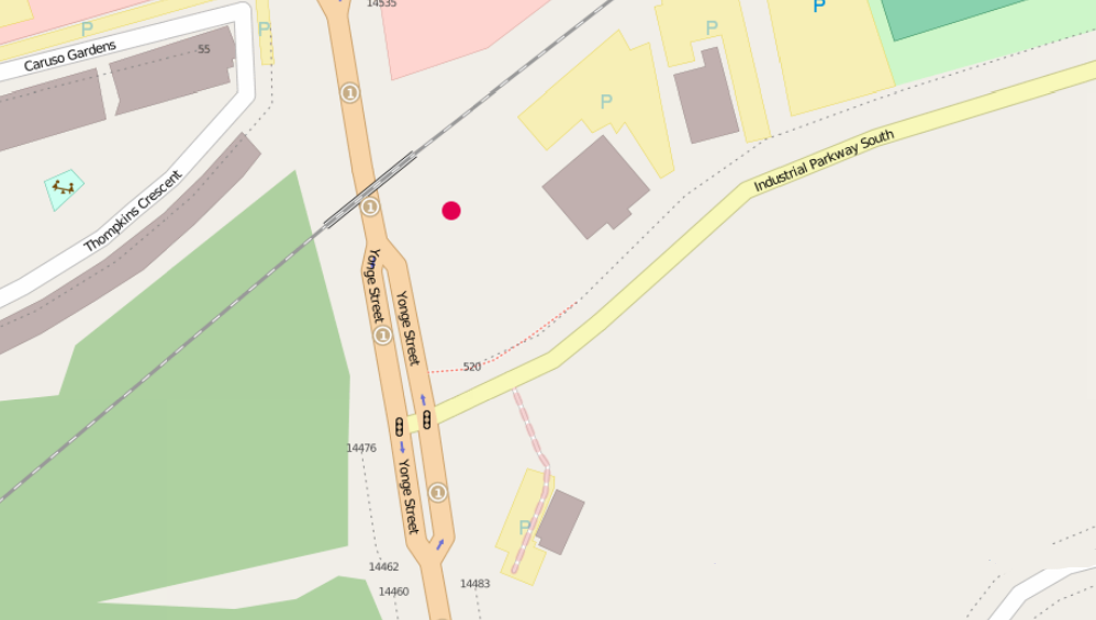 Map showing the location of the Radial Railway Bridge Abutment, in Aurora, Ontario. Marked with a red dot. The railway seen along the back is used by GO Transit.